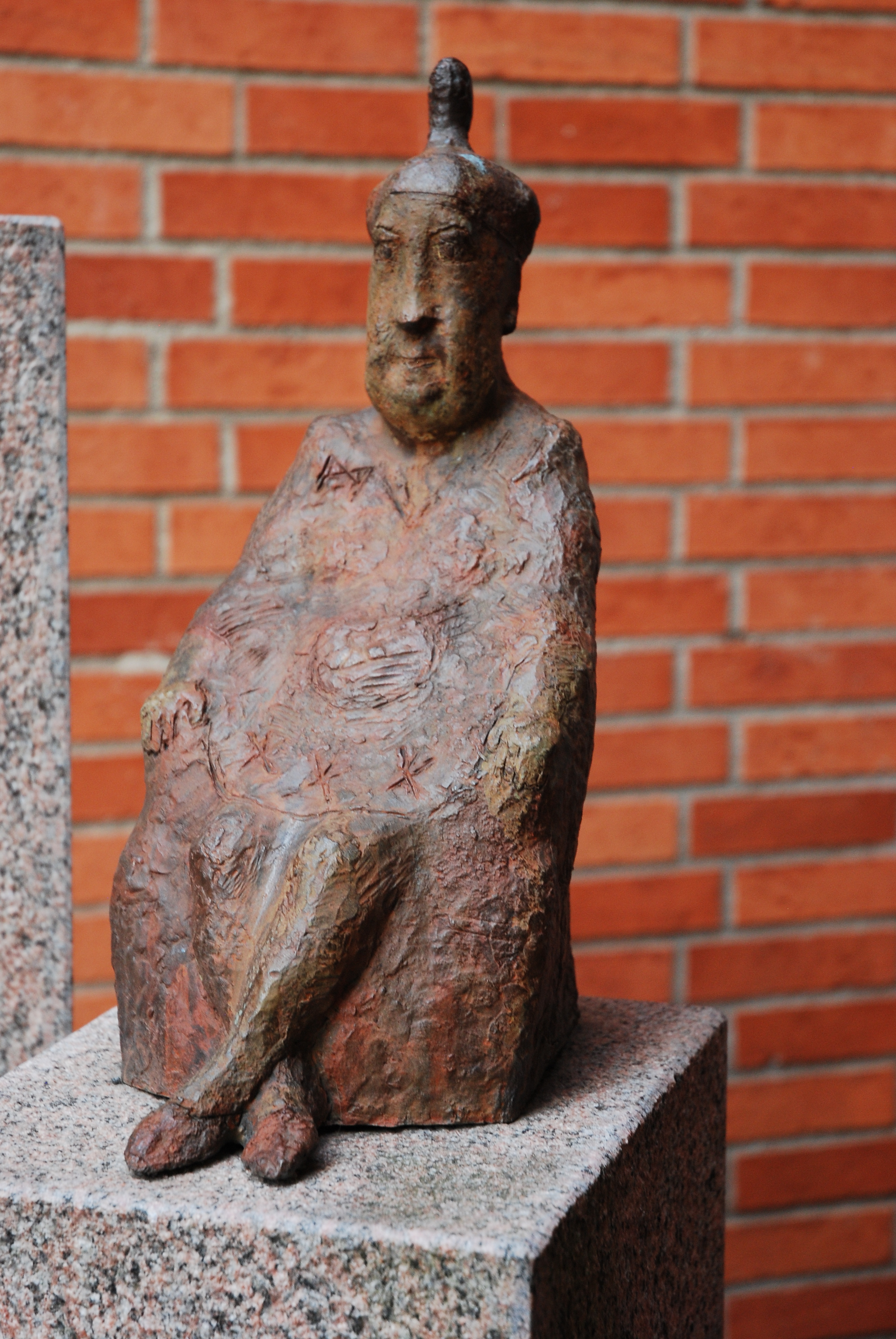 Majalisa Alexanderssson´s Jag ville jag vore en indian (I wish I were a Red Indian), bronze, Huddinge centrum, Huddinge, Sweden